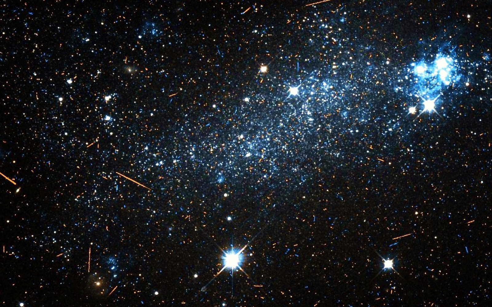 NGC 5408 dwarf irregular galaxy by Hubble space telescope